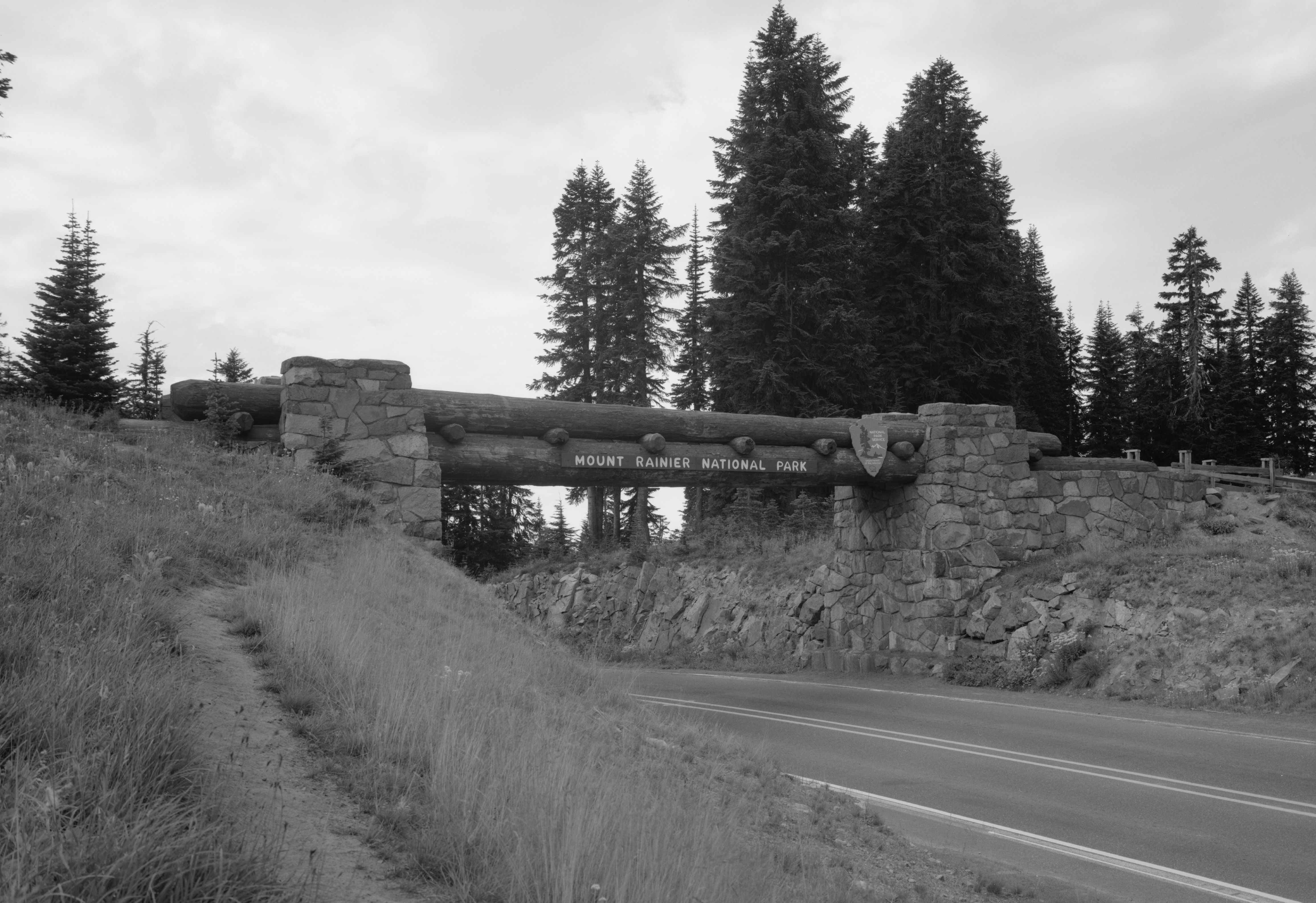 A cropped by me photo of the Chinook Pass Entrance Arch at Mount Rainier National Park